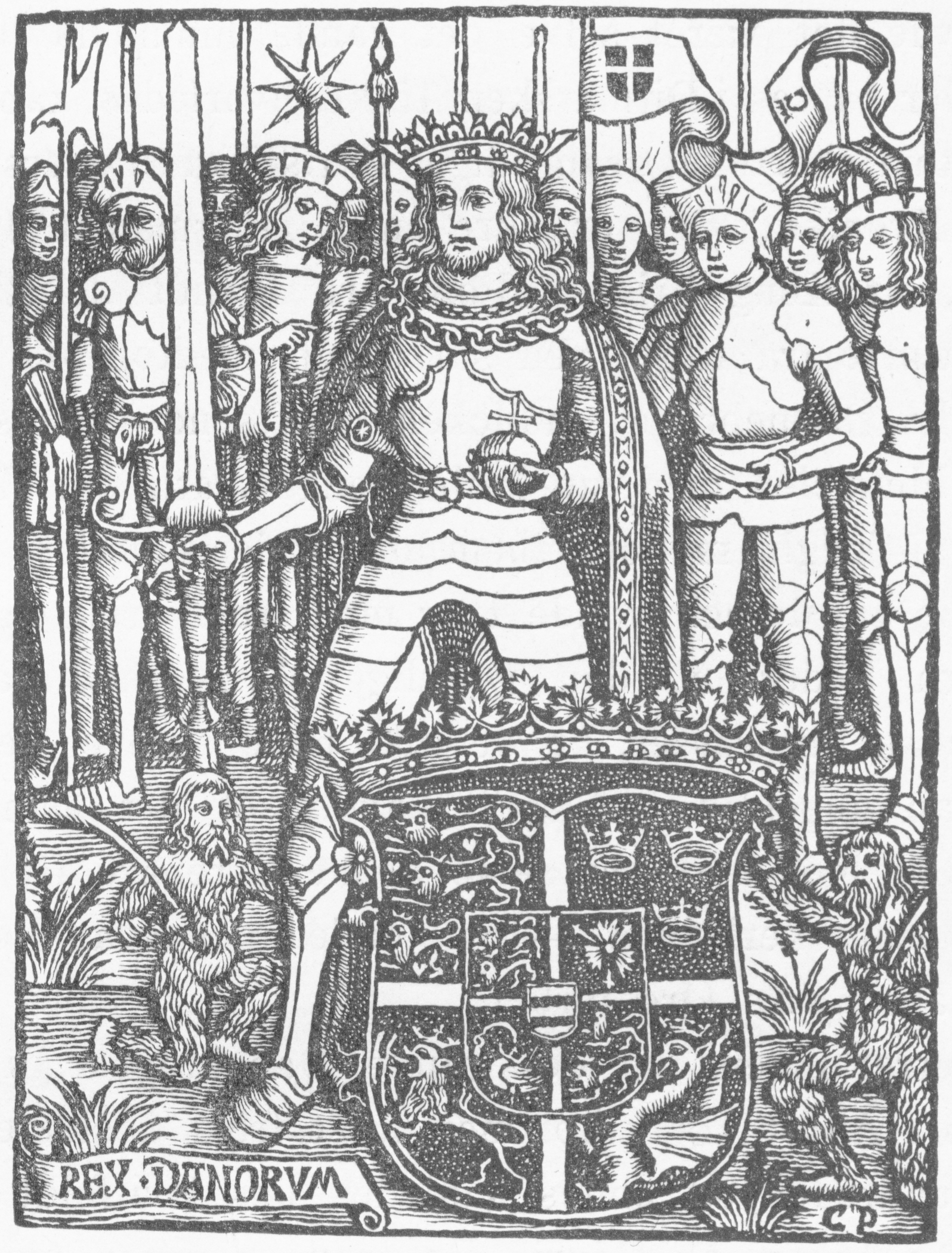 Detail from the frontispiece of Christiern Pedersen's edition of Saxo Grammaticus's Danorum Regum heroumque Historiae, Paris, 1514.